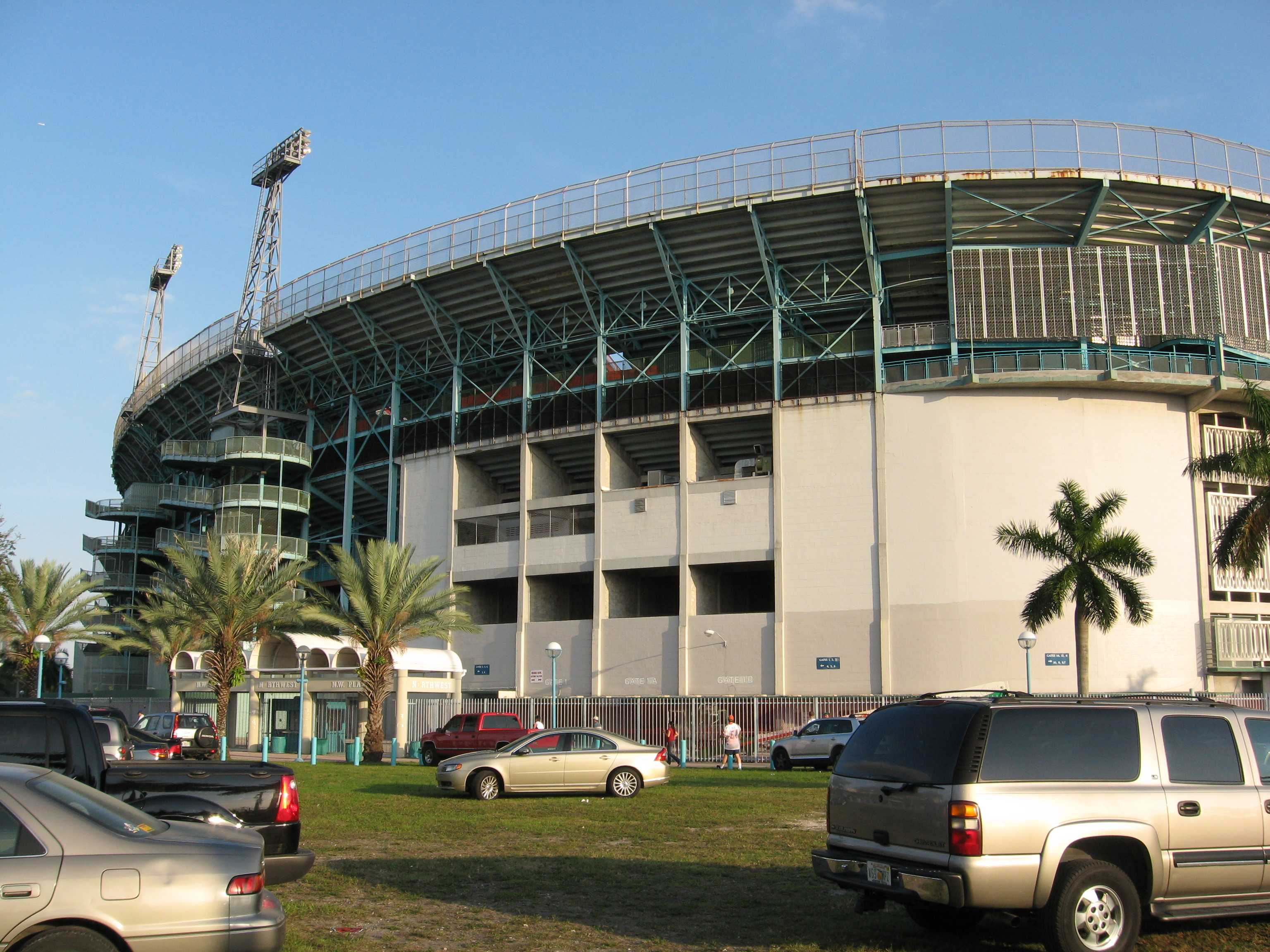 Picture taken of the North side of the stadium, after the 'Farewell to the O.B." event.